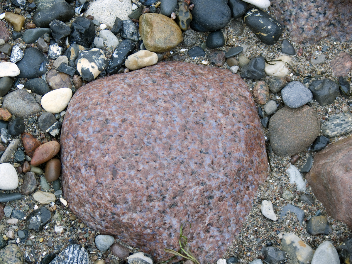 red Smaland granite with chracteristic blue quartz, glacial erratic, baltic sea